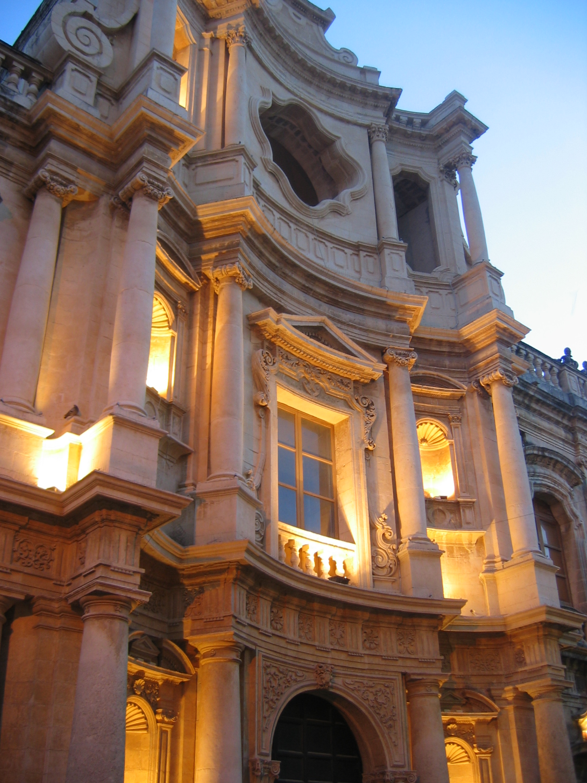 Author : Urban Description : Chiesa San Carlo Borromeo in Noto, Sicilia Body : Canon Powershot A80 Date : August, 2005